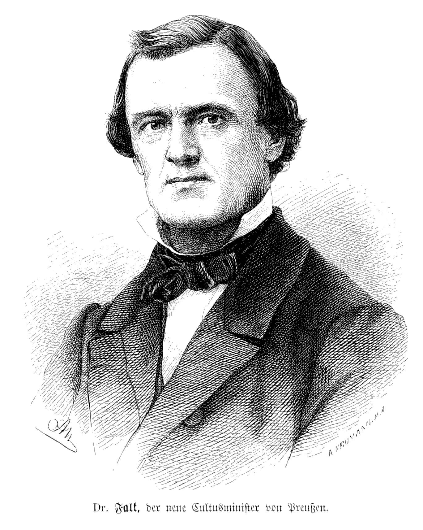 caption: "Dr. Falk, der neue Cultusminister von Preußen."